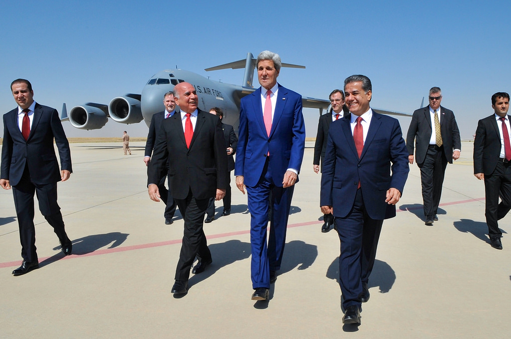 U.S. Secretary of State John Kerry walks with Iraqi Kurdistan Region Presidency Chief of Staff Fuad Hussein and Director of the Kurdistan Regional Government Department of Foreign Relations Director Falah Mustafa Bakir following his arrival in Erbil, Iraq, on June 24, 2014. [State Department photo/ Public Domain]